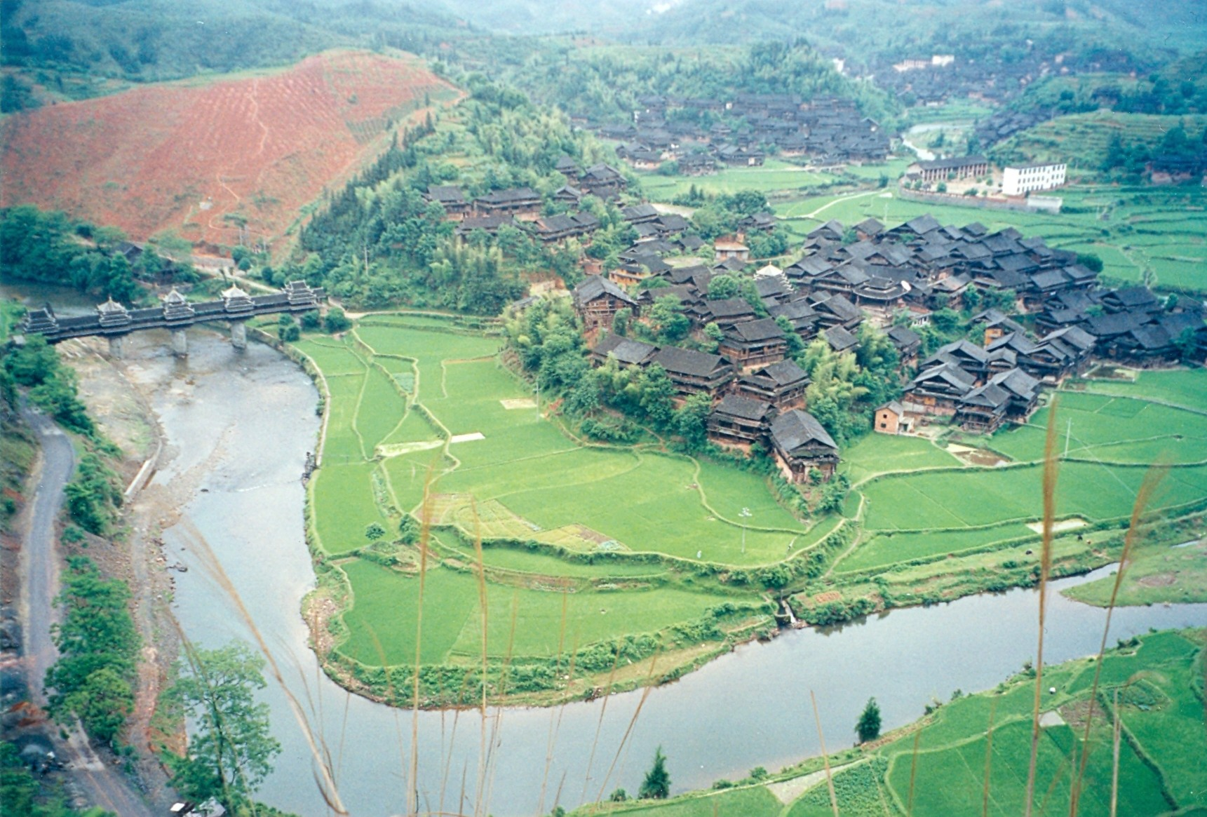 Overview of the Dong village of Chengyang, Guangxi, China.